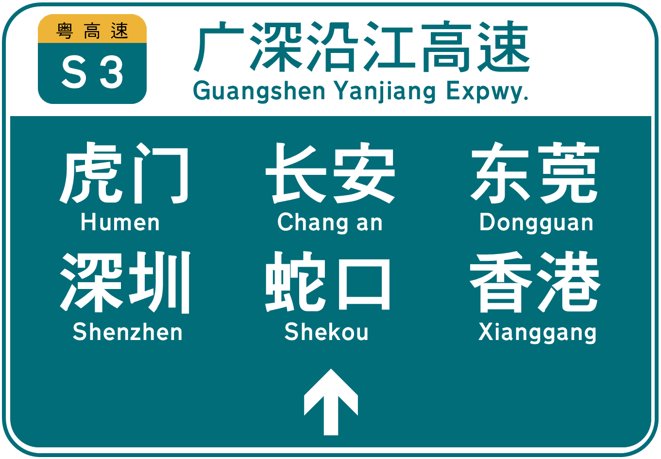 Road sign of s3 expressway in guangdong, china